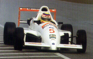 Alex Yoong of Malaysia driving a Formula Asia 2000 race car at Zhuhai.